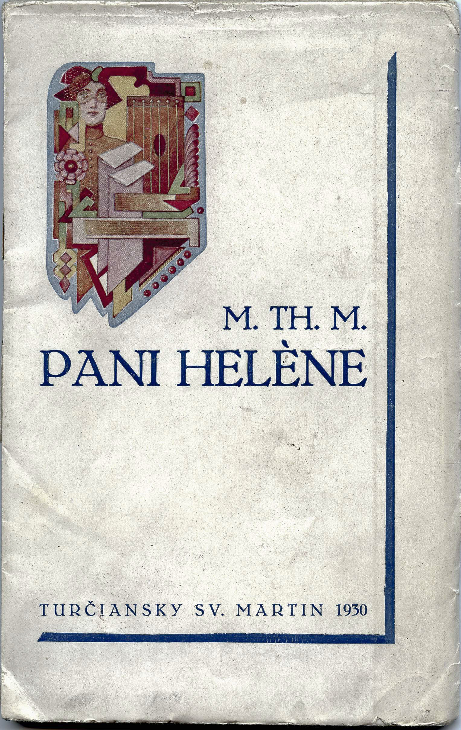 1st. Edition cover